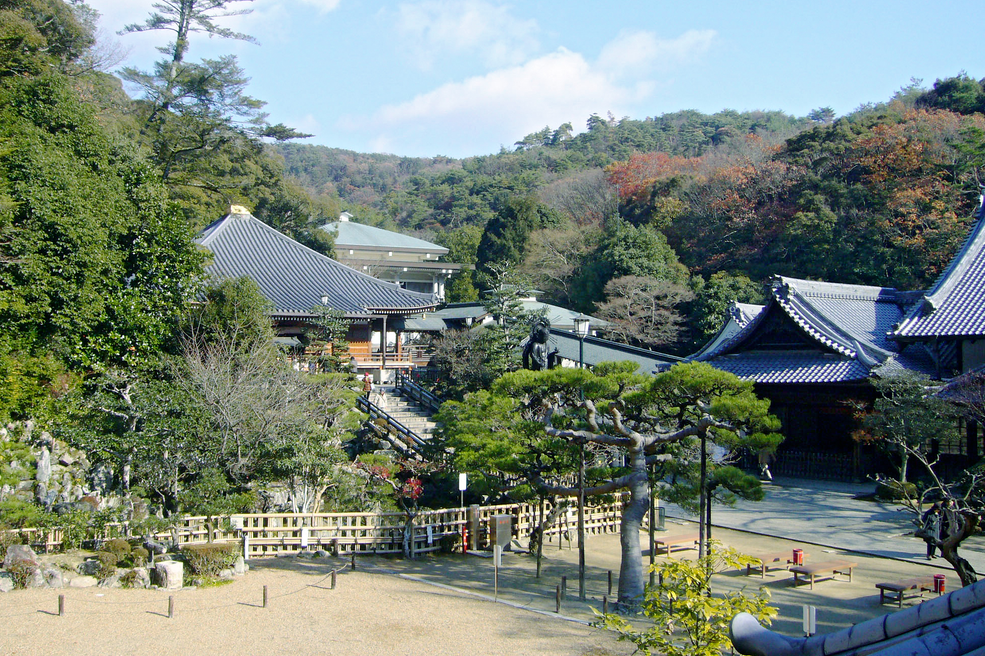 Kiyoshikōjin Seichō-ji in Takarazuka, Hyogo prefecture, Japan